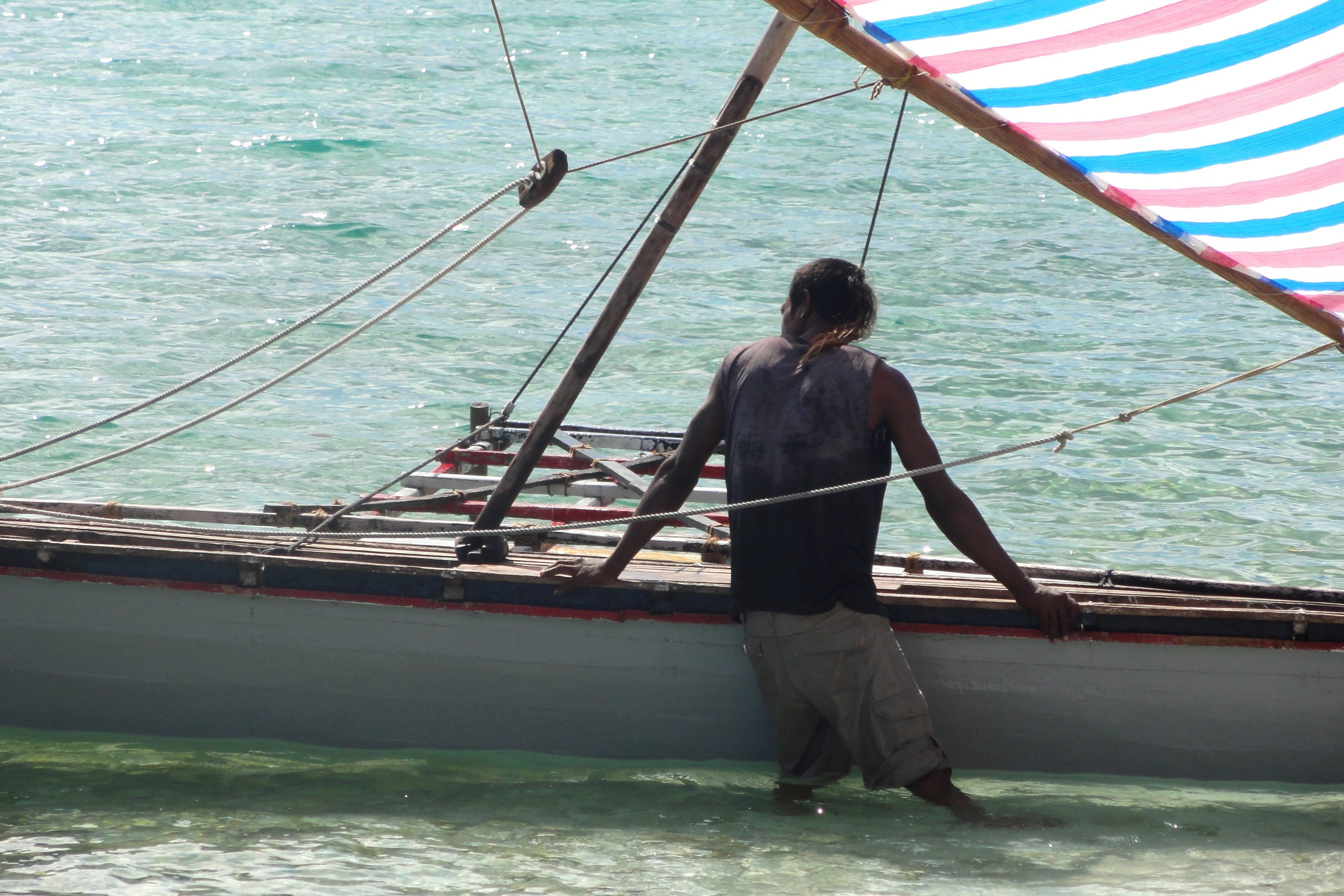 Getting ready to set sail in Terio, Kiribati, 2011. Photo: Erin Magee / DFAT